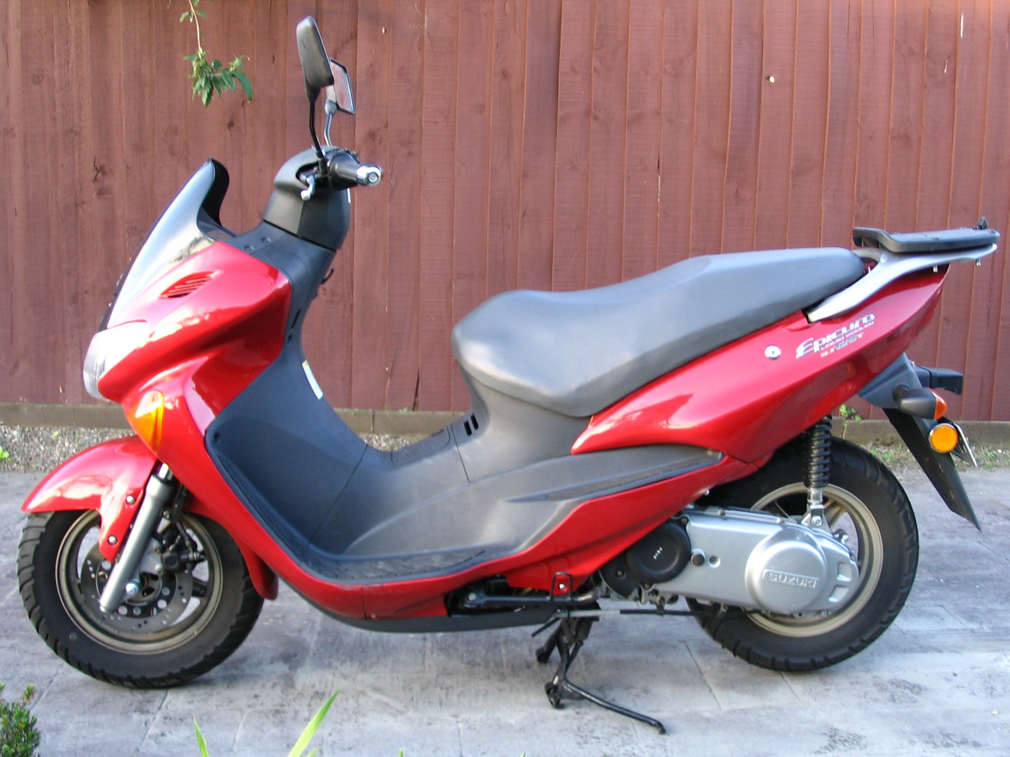 Side view of a Suzuki SJ125T (UC125)